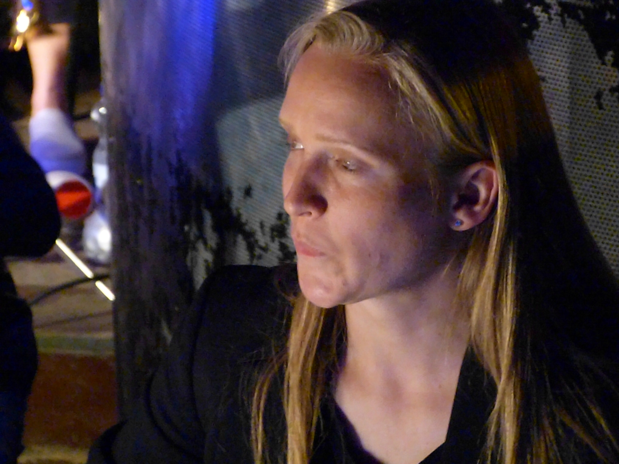 Susanne Weidinger (s,bcl) in the concert "Big Company" of the Subway Jazz Orchestra feat. Florian Ross (arr,comp), September 12th, 2018 at Subway (Cologne), Germany, with Shannon Barnett and others